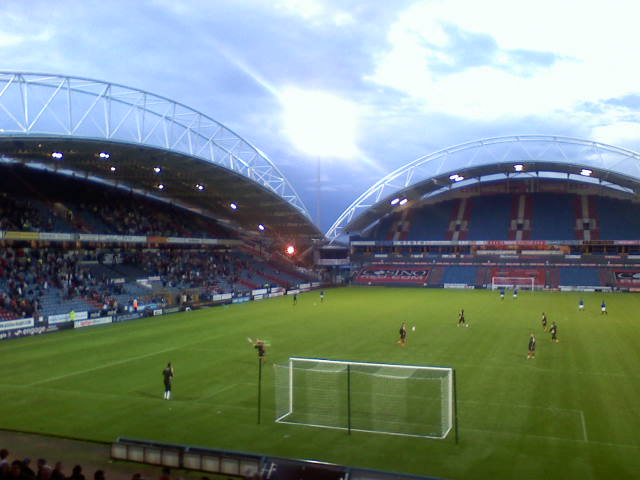 Players warming up at half-time during the Huddersfield Town versus Bradford City fixture in the Football League Cup at the Galpharm Stadium on 12 August 2008.